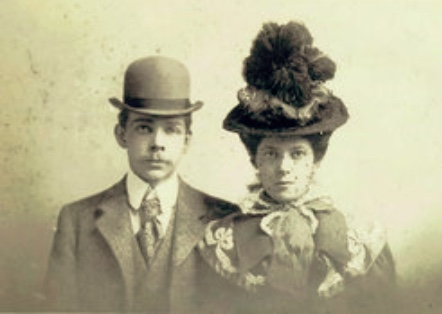 Theodore and Mathilde Boal - est. about 1900